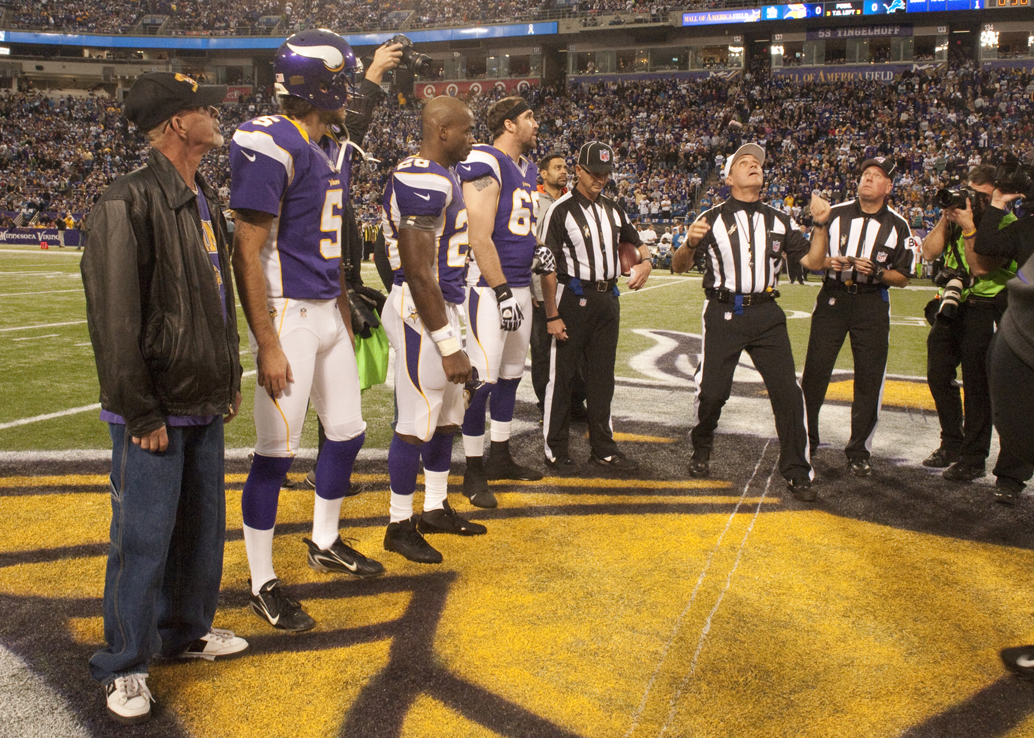 Minnesota Vikings P Chris Kluwe, RB Adrian Peterson and DE Jared Allen during 2012 Vikings Military Appreciation Game